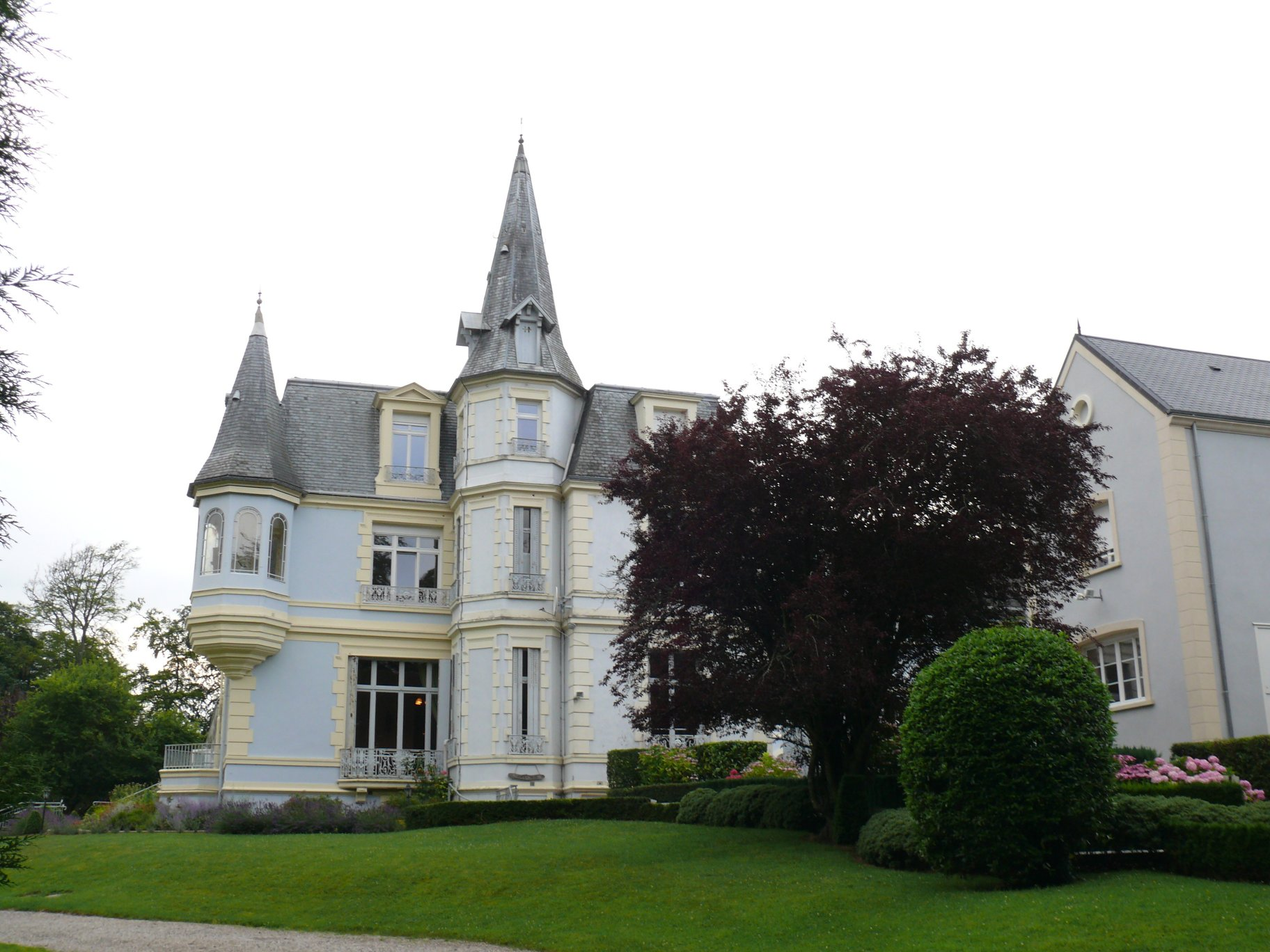 The Diocese house Les Tourelles of Condette (Pas-de-Calais, France).